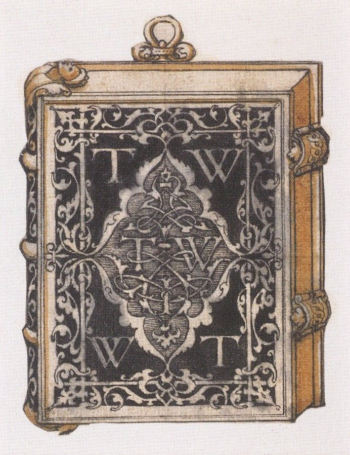 Design for a Metalwork Book Cover. Pen and black ink with black, grey, and yellow wash on paper, 8.1 × 6 cm, British Museum. This is a design for a book cover to be made with black enamel patterned over gold (Foister, p. 84). Small girdle books of this sort were attached to the belt by a ring, as drawn at the top. Clasps are shown to the right. The initials may be those of Thomas Wyatt the Younger, who was later executed for leading a rebellion in Kent during the reign of Queen Mary.